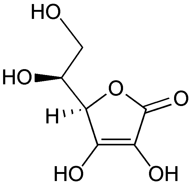 Chemical structure of ascorbic acid, (aka vitamin C)